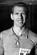 Erik Nilsson, Swedish Footballer of the year 1950